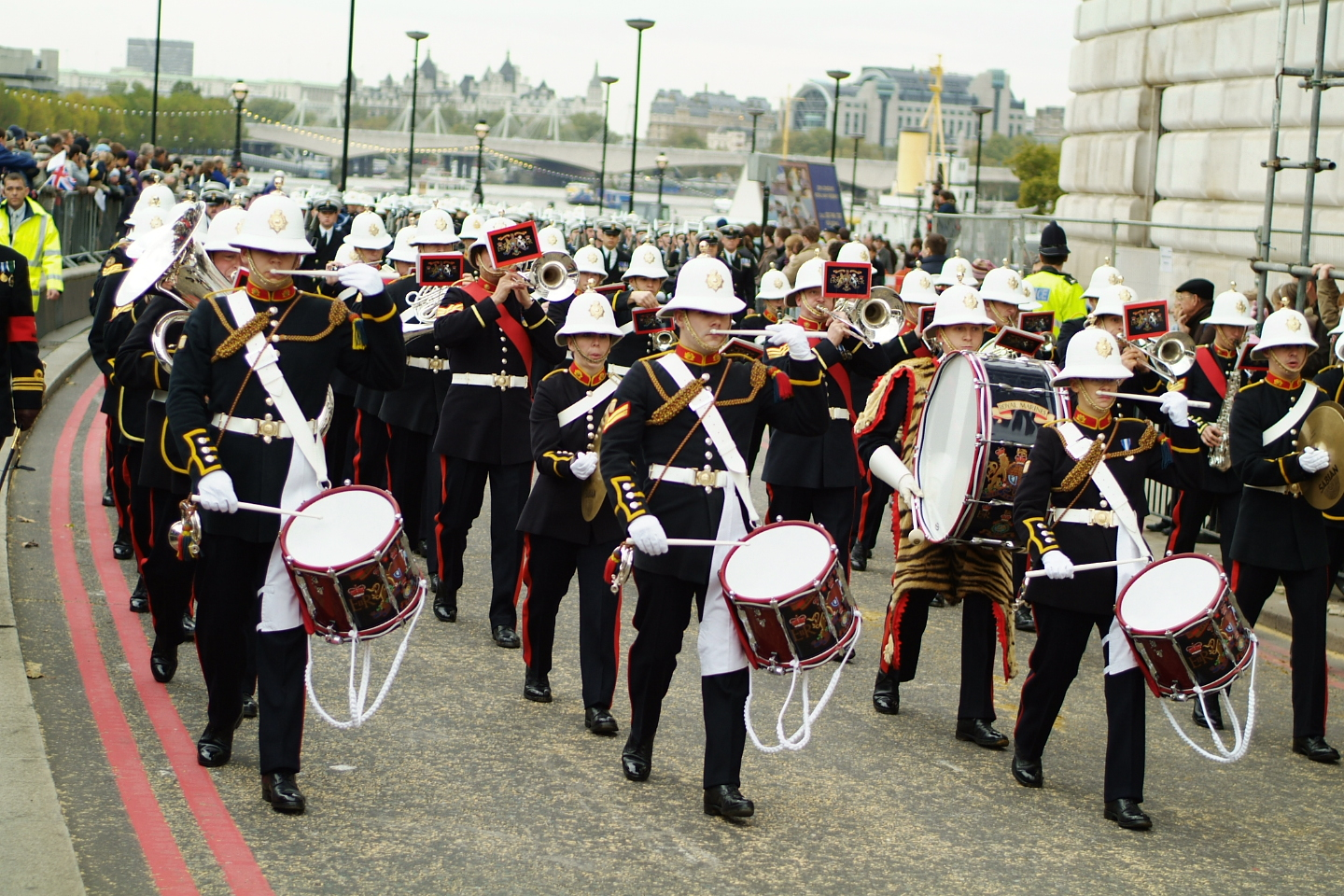 Lord Mayor's Show, London 2006